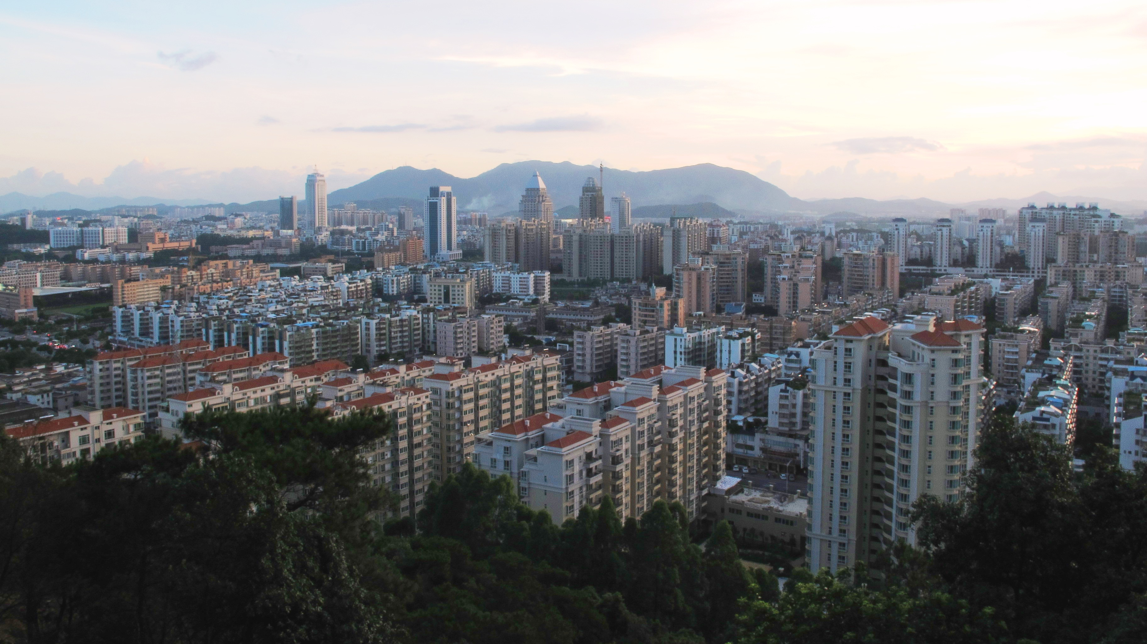 View from the Jizu Shan (Mount Jizu) on the city of Jiangmen in China.